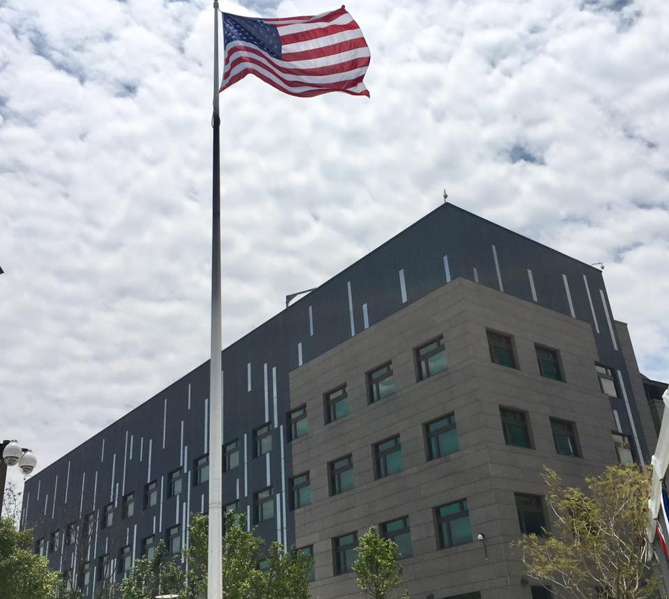 AIT NOC dedication ceremony